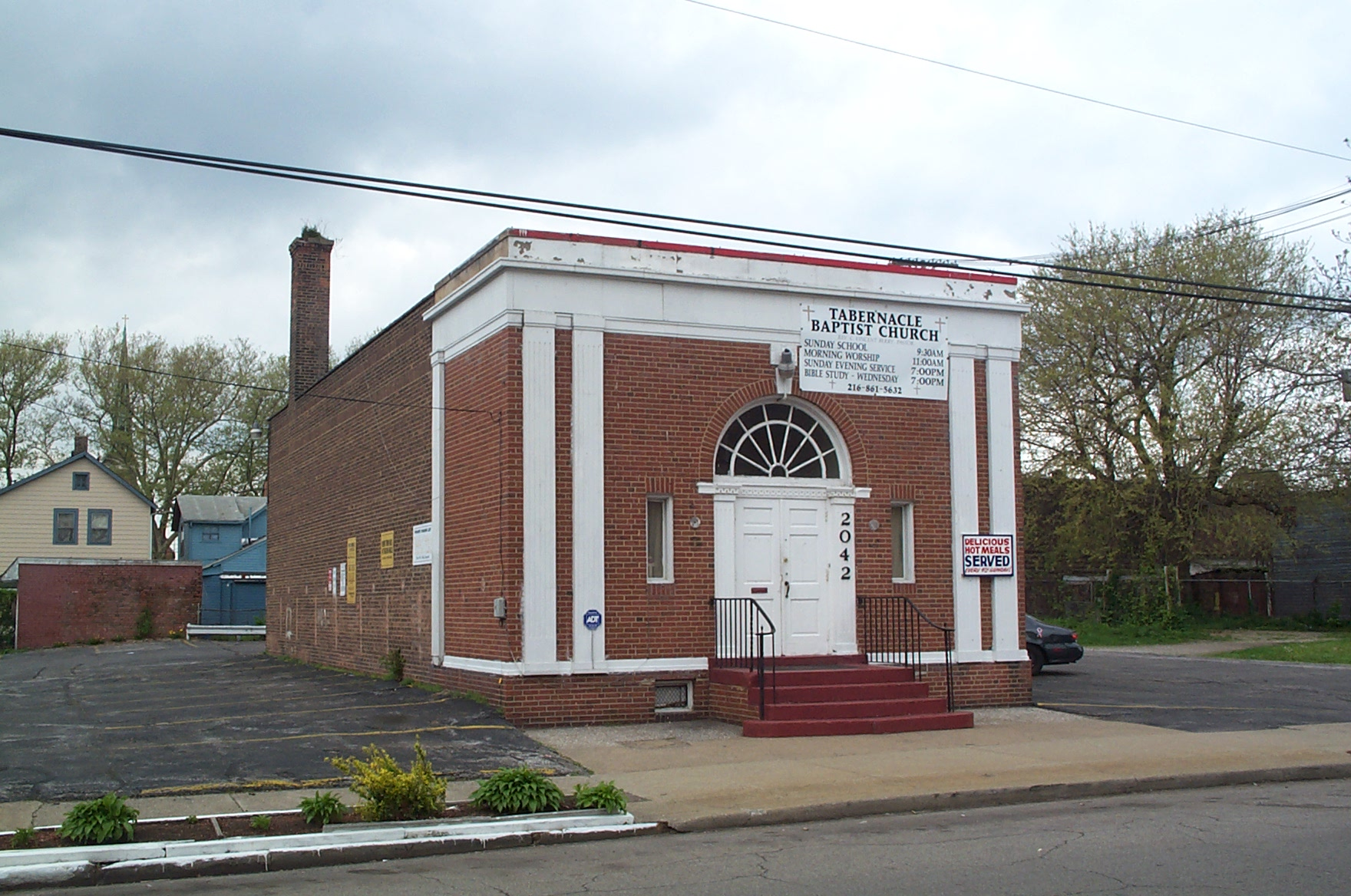 Typical storefront church in one of the poorer neighborhoods of Cleveland, Ohio